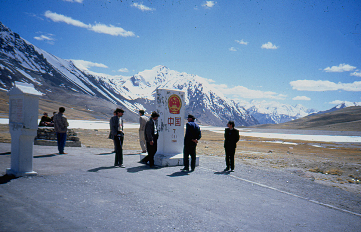 After two weeks walking reached: the Khunjerab pass (4693 m) - the border between China and Pakistan.